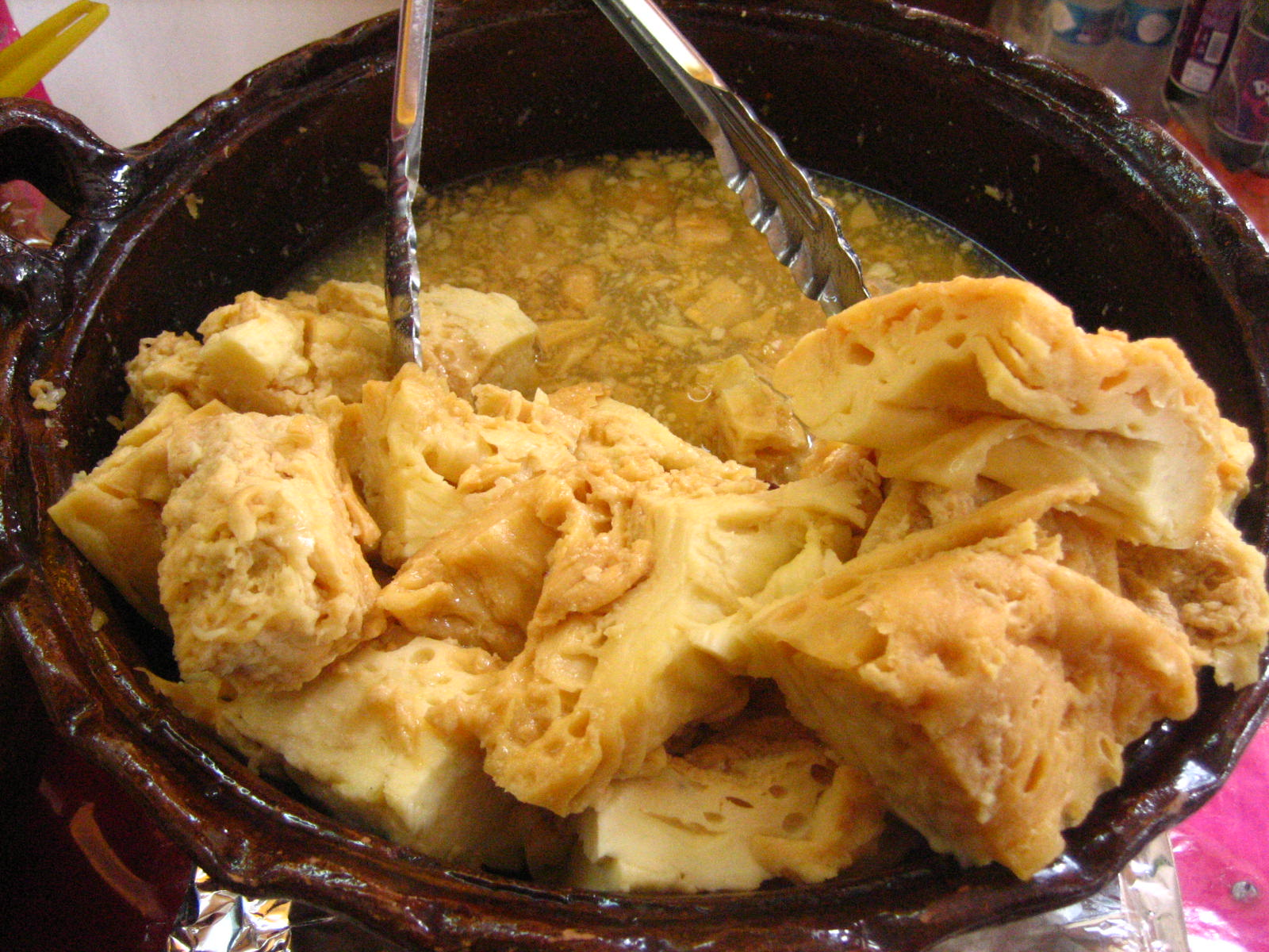 chongos zamoranos, michoacan